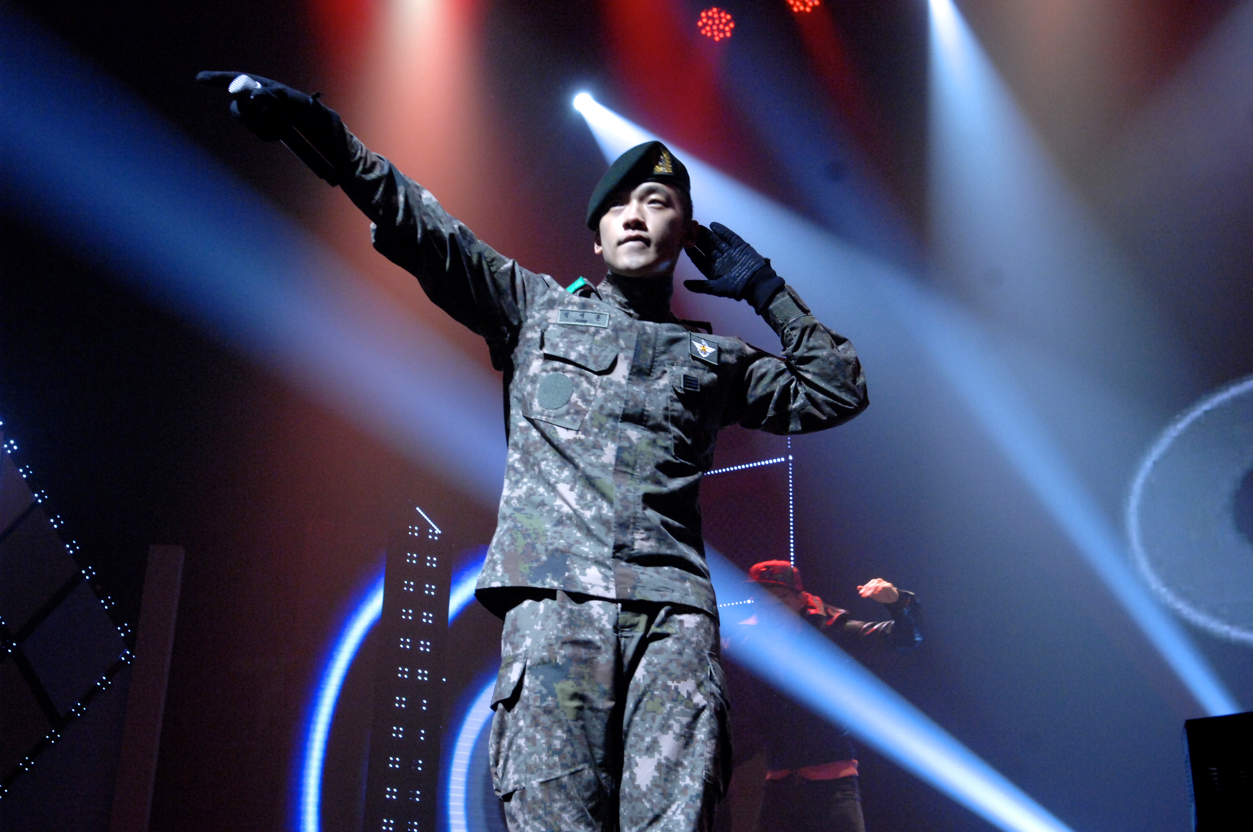 Click here to learn more about Camp Humphreys U.S. Army photos by Jaeyeon Sim and Tanya Im